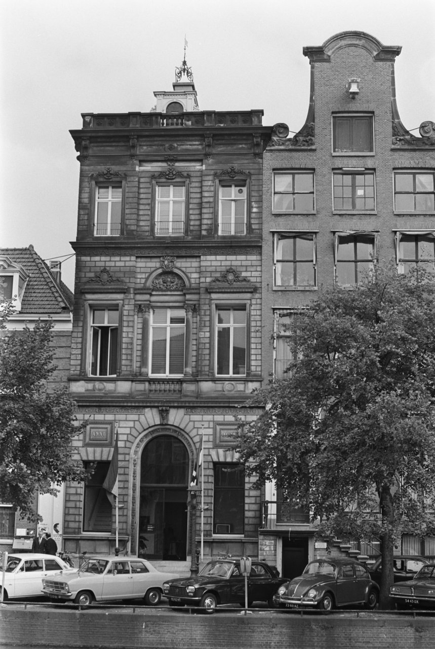 Museum Fodor, Amsterdam, exterior.